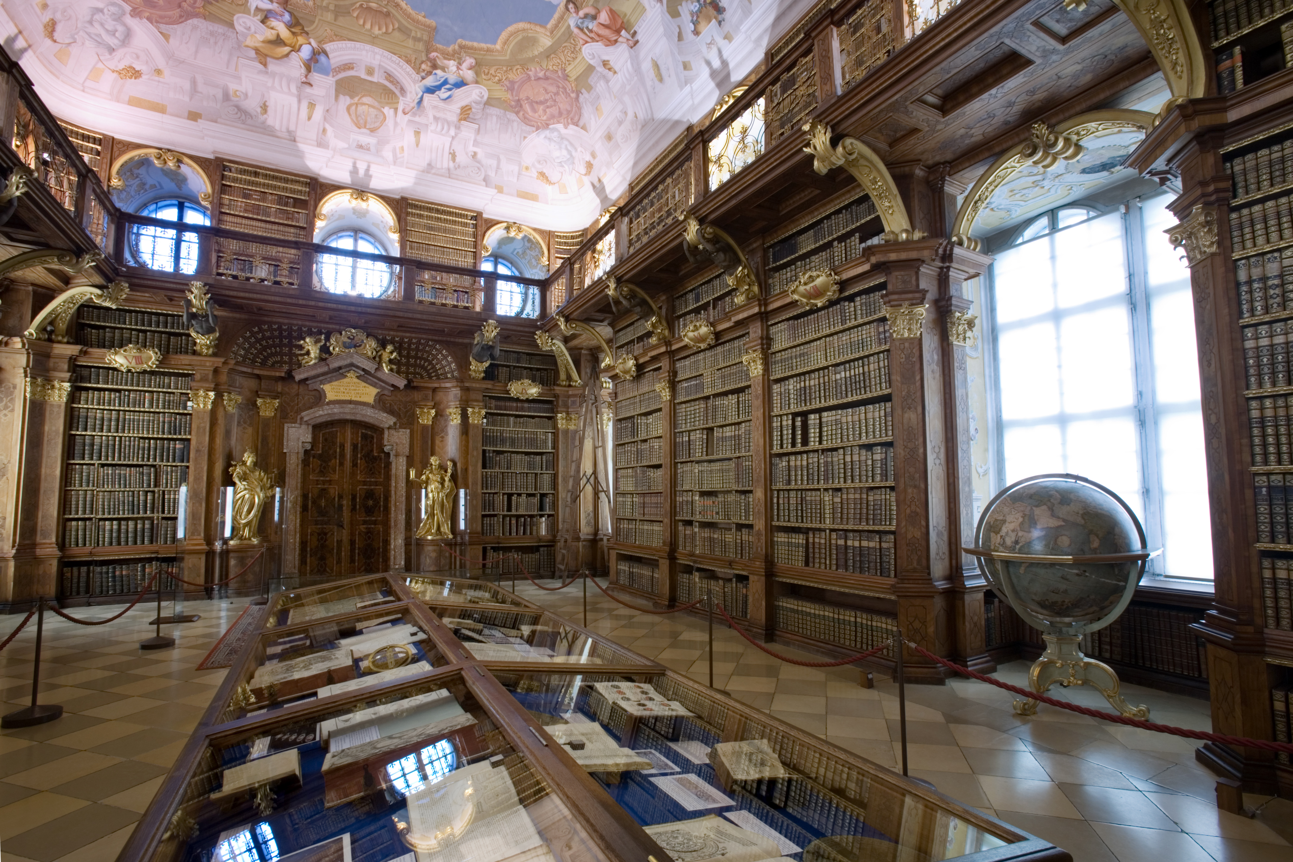 Melk Abbey Library, Austria